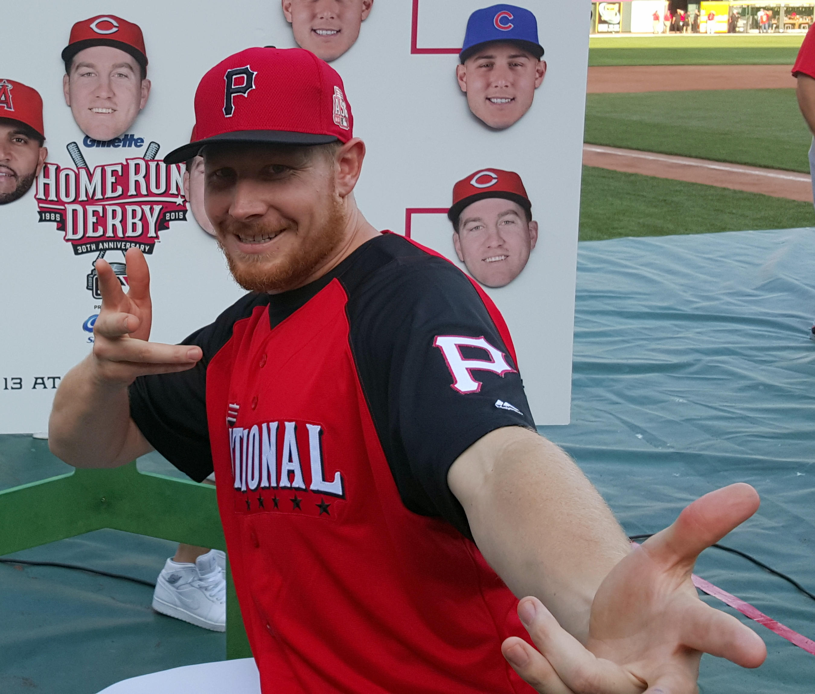 Mark Melancon